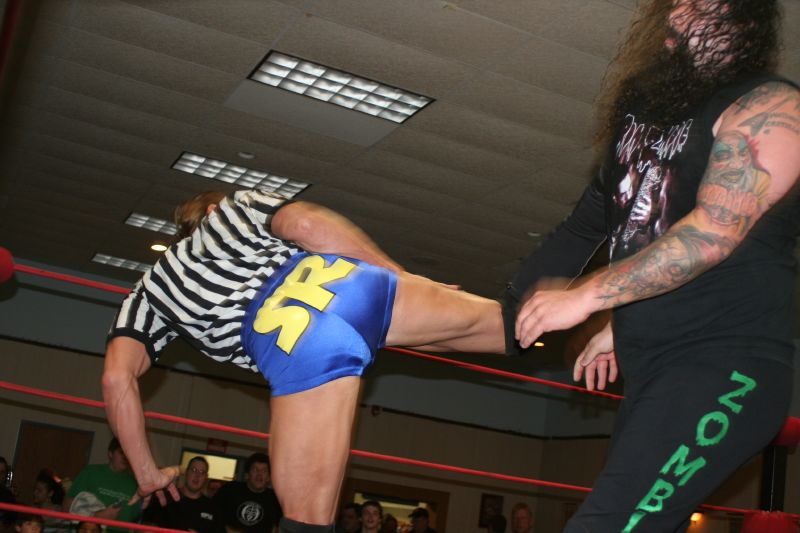 Professional wrestler Stevie Richards (real name Michael Manna) performing the Stevie Kick